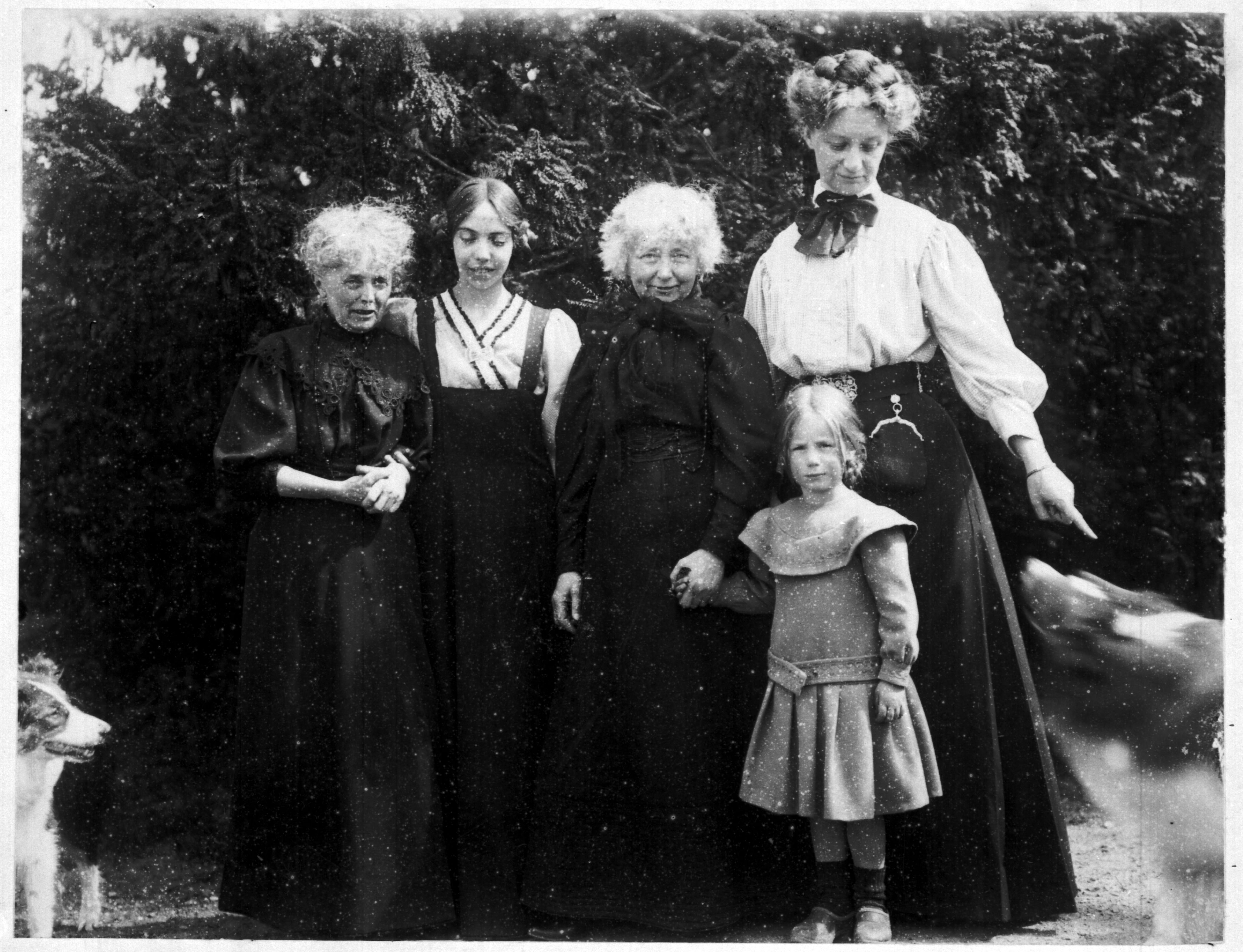 Artist: unknown Date/place: unknown Subject: Tony Hagerup, Nina Grieg and Bodil Neergaard Medium: photographic positive, B&W Notes: From left: Tony Hagerup, Nina Grieg and Bodil Neergaard. The two young girls are unknowed Persistent URL: [#//bergenbibliotek.no/digitale-samlinger//engelsk/-intro-eng” Original belongs to the Edvard Grieg Archives at Bergen Public Library] Original reference: EGM0144